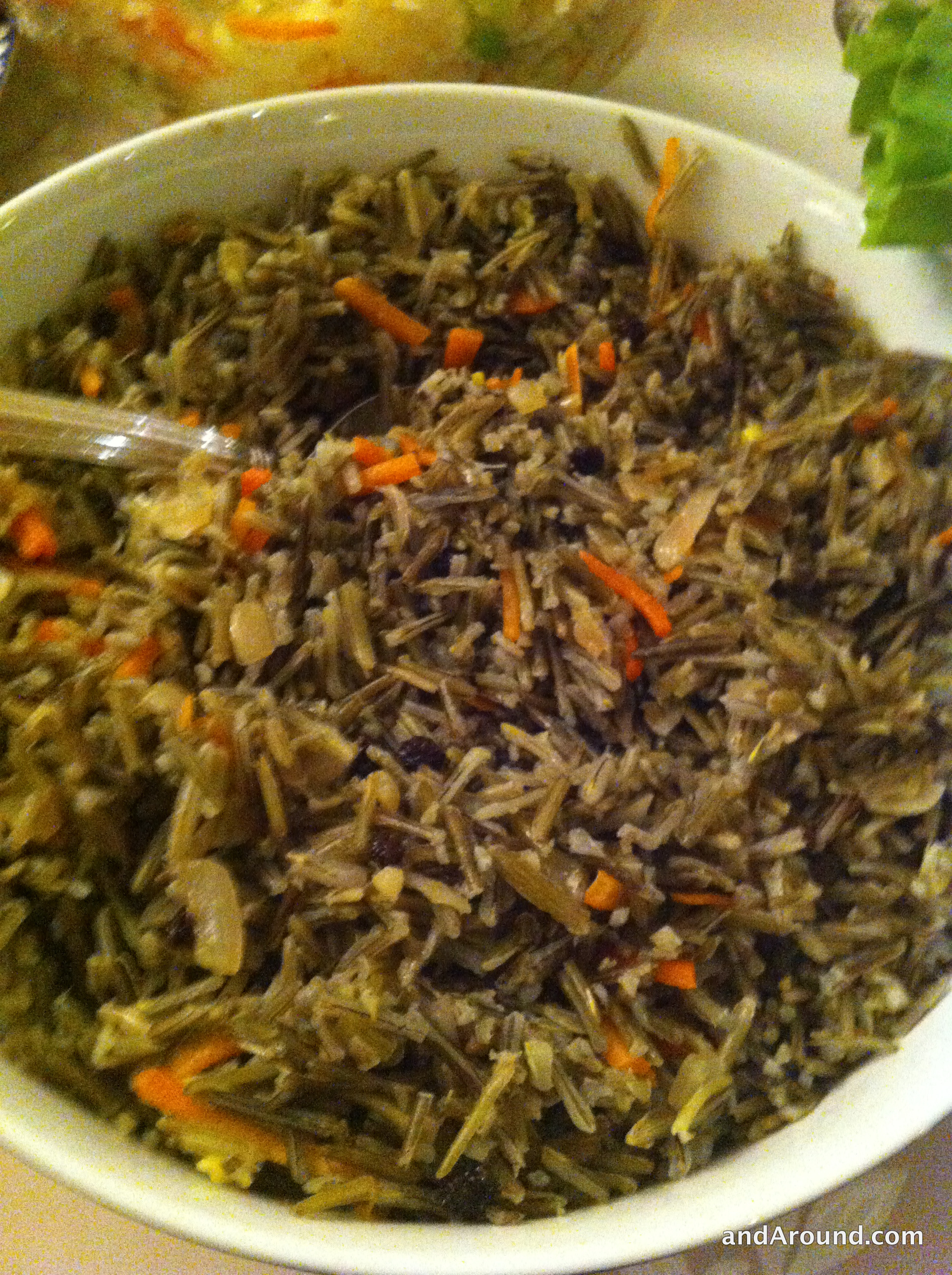 Manoomin (wild rice) salad - United States